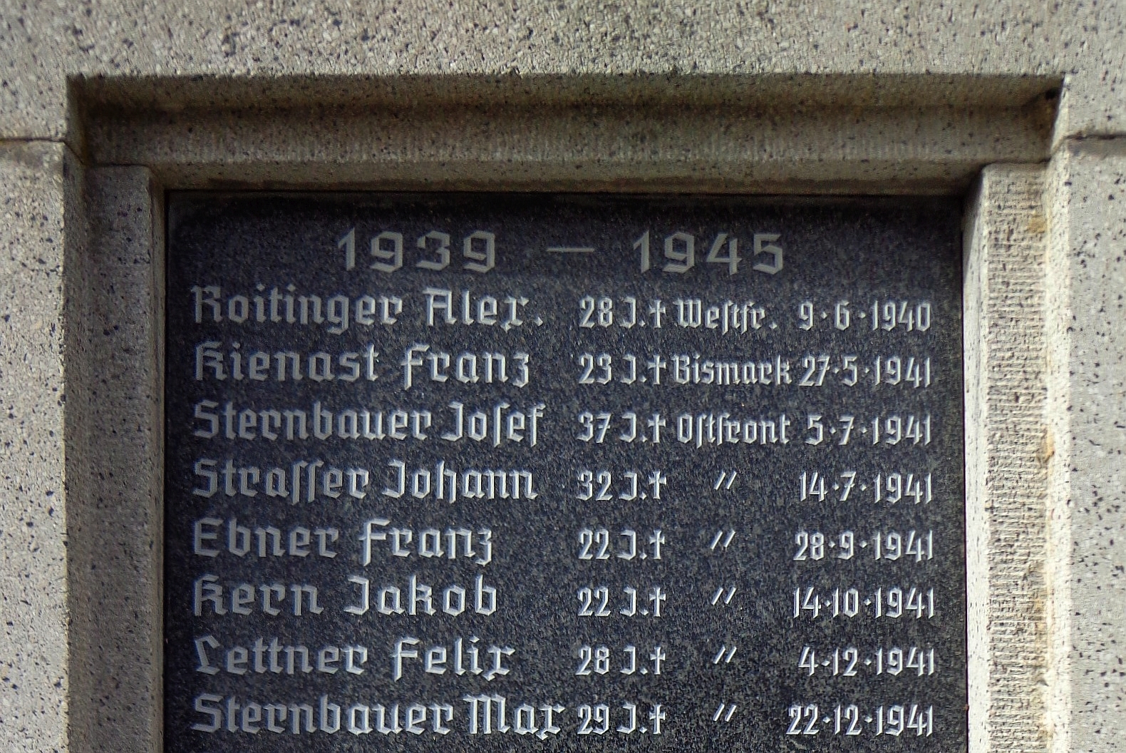 War memorial (Neuhofen im Innkreis), tablet on the left, commemorating Franz Kienast, died aged 23 in the sinking of the battleship Bismarck on 27 May 1941